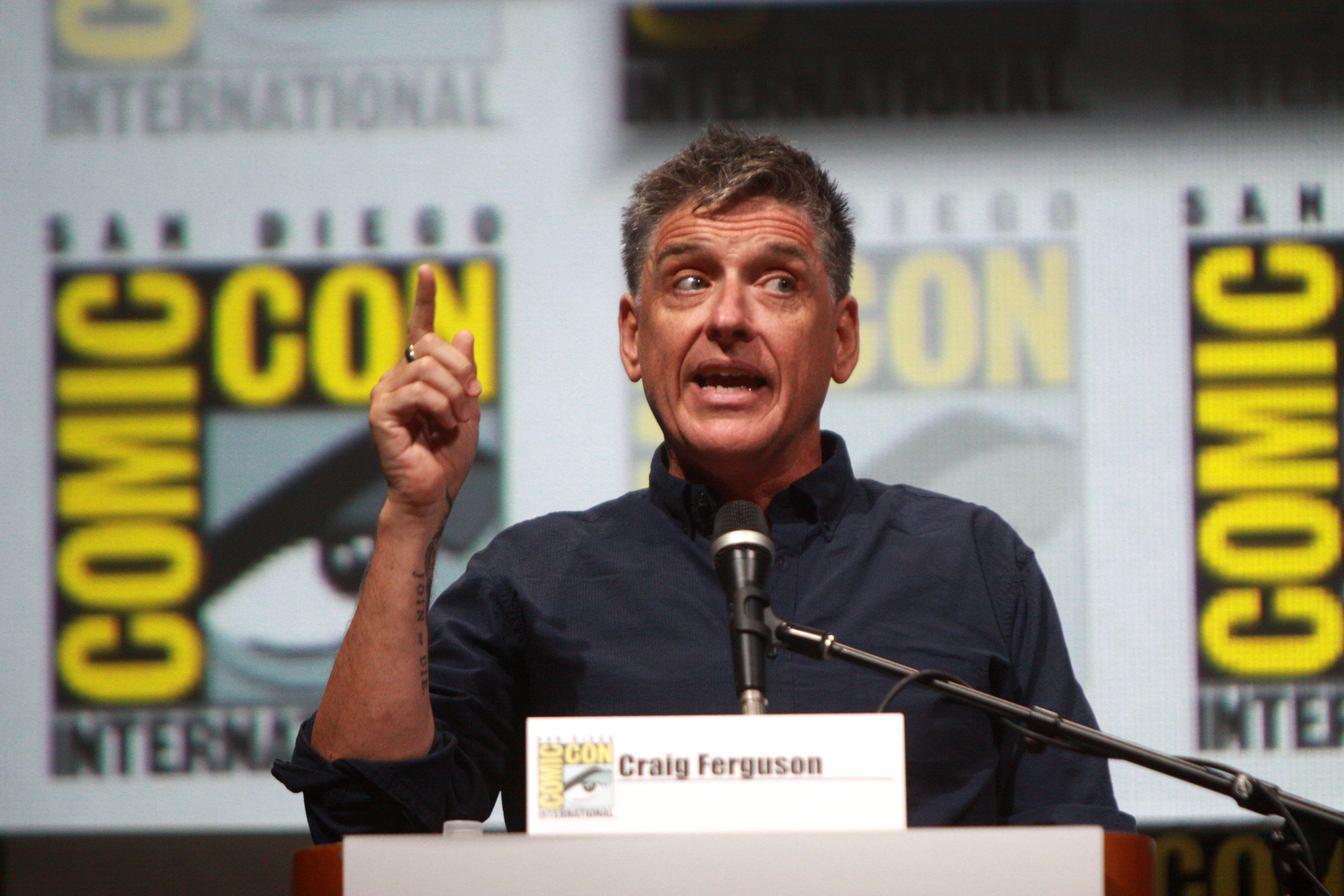 Craig Ferguson speaking at the 2013 San Diego Comic Con International, for "Doctor Who", at the San Diego Convention Center in San Diego, California.